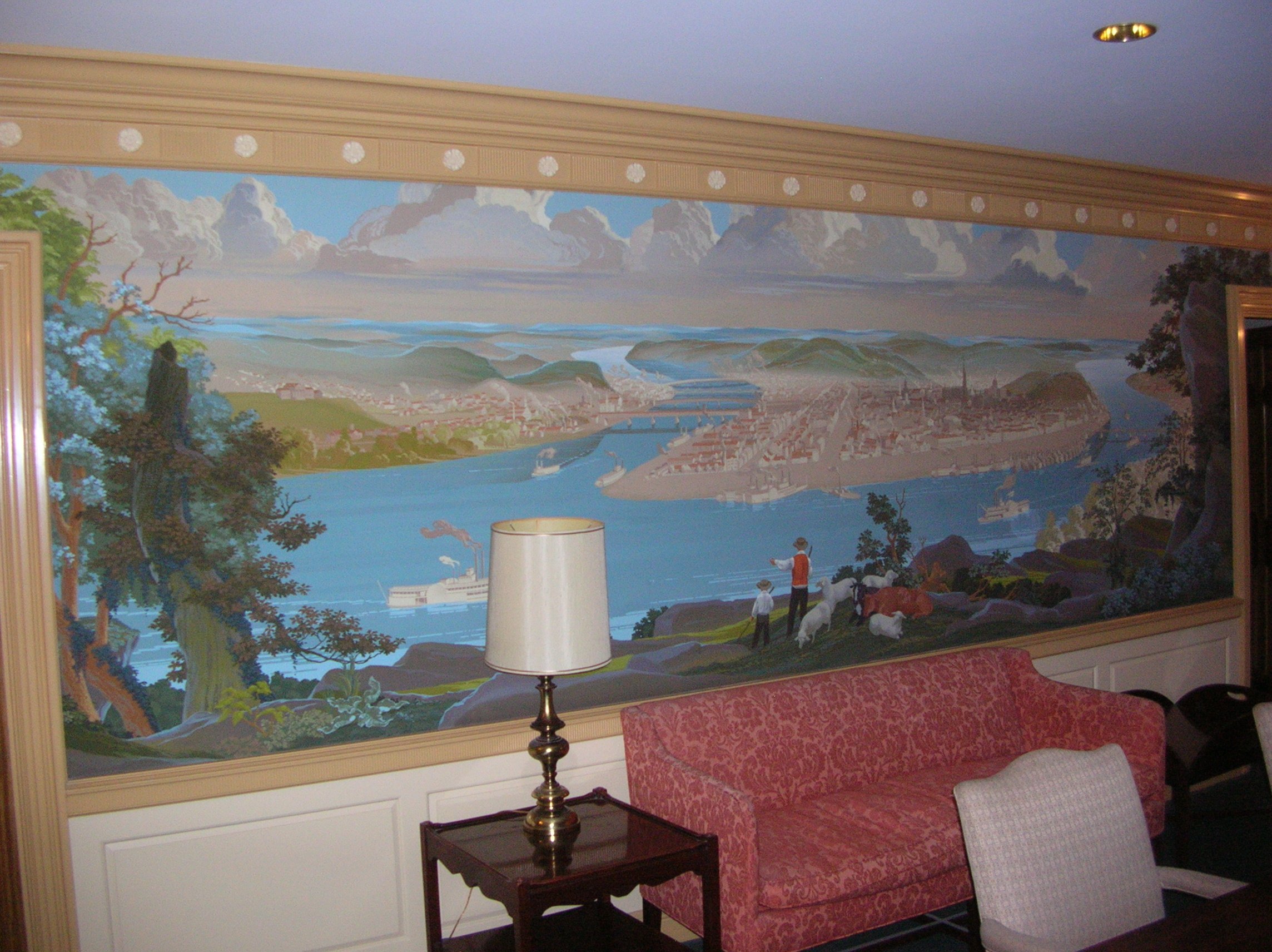 Wall mural painting of Pittsburgh point outside the former Mellon Executive Board room on floor 41 of the 525 William Penn Place building, Pittsburgh.